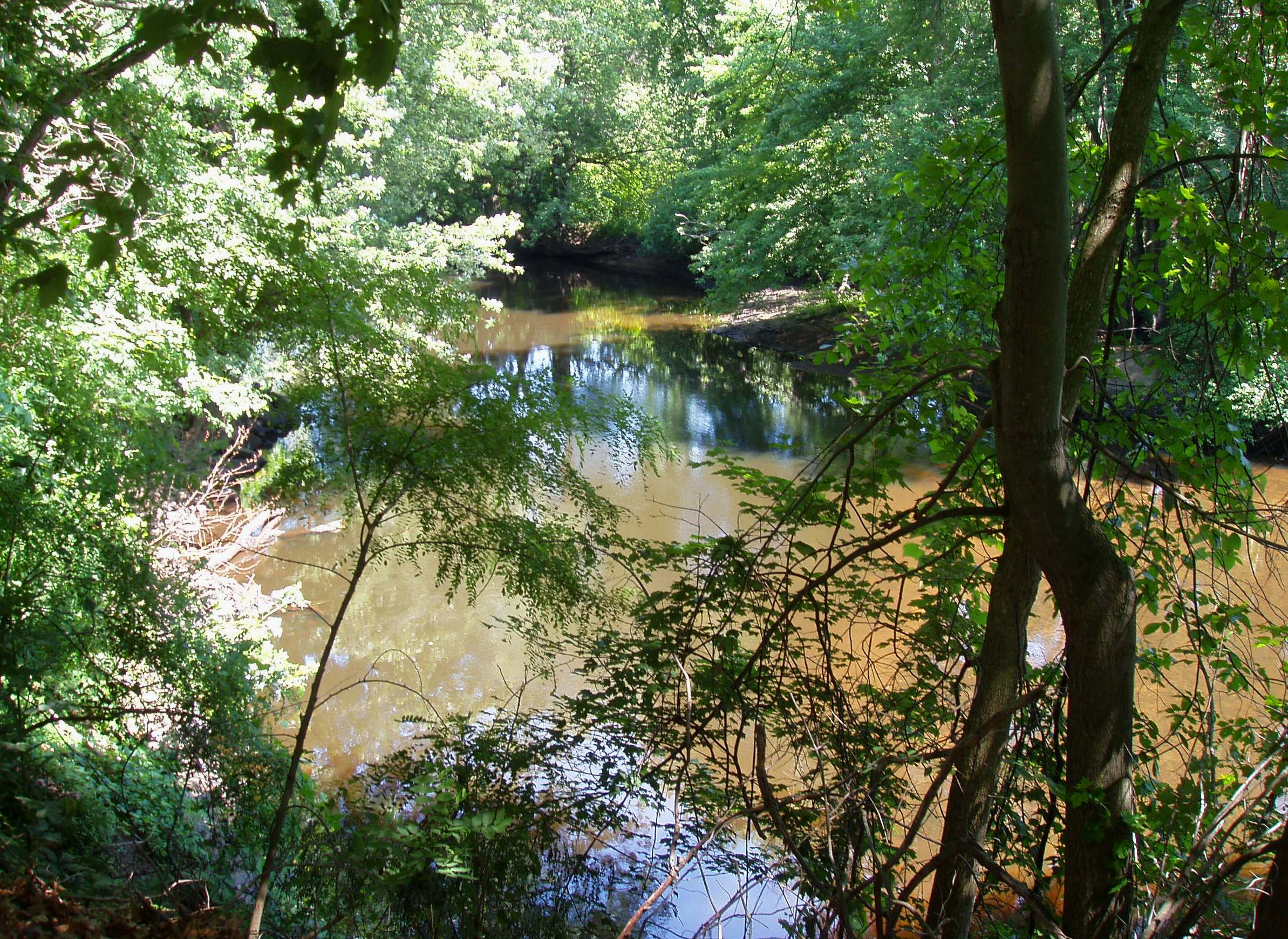 The Assabet River, very close to the Route 2 bridge in Concord, Massachusetts.